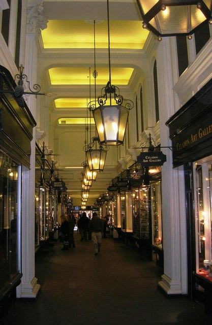 Princes Arcade W1 From its junction with Piccadilly W1